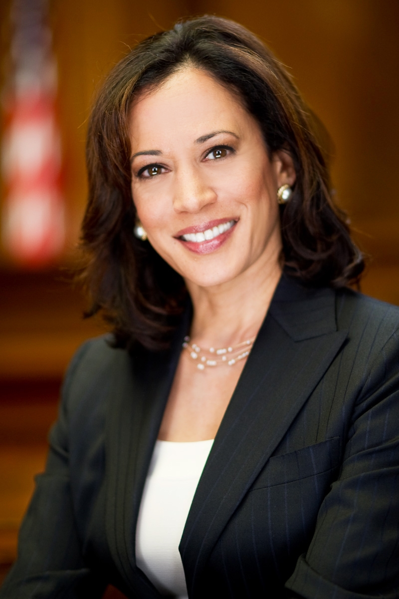 Kamala Harris's official photograph as California Attorney General.